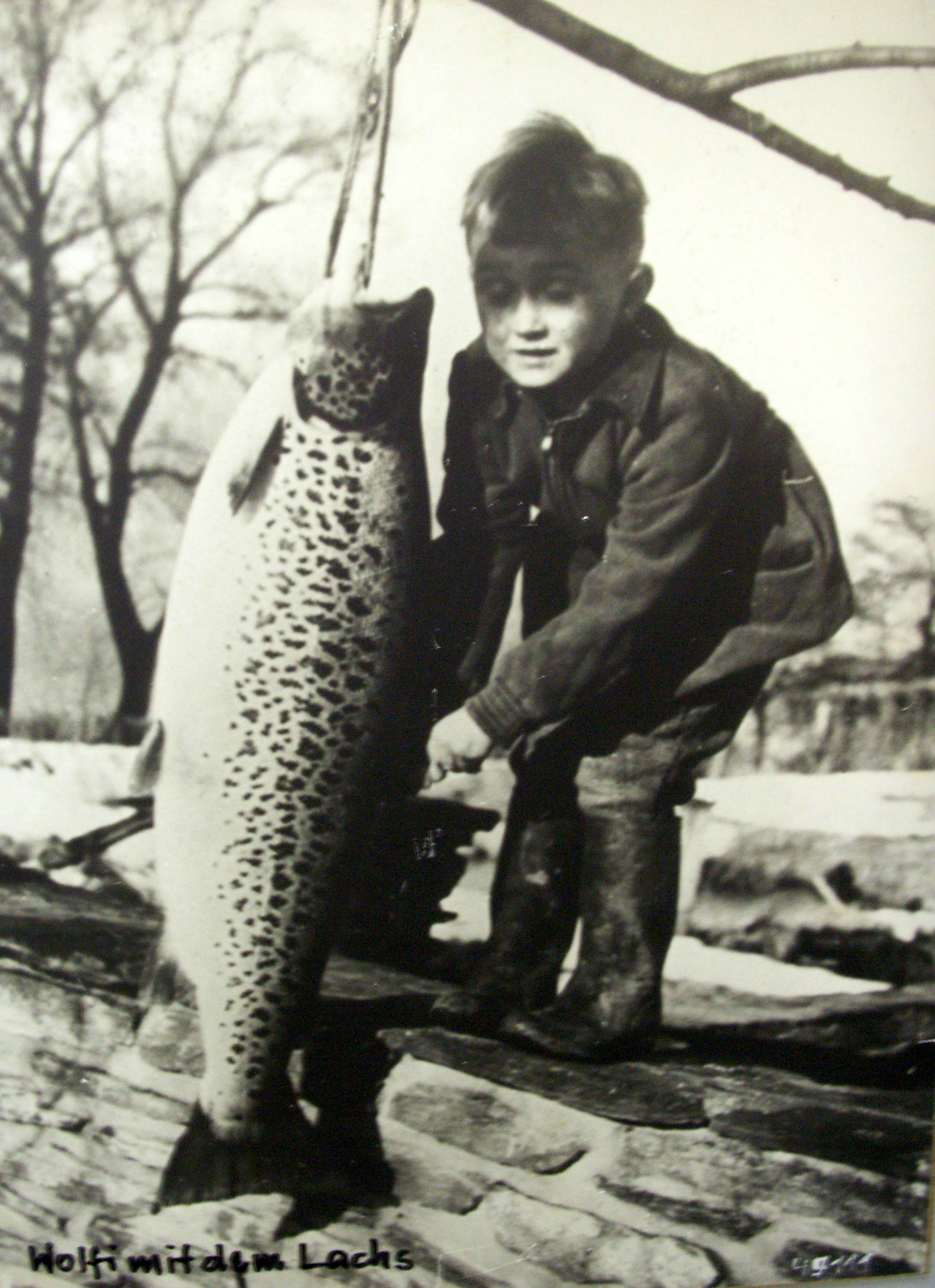 A boy with a fish in the old fisherman house near lake Millstatt in Seeboden / Carinthia / Austria / European Union, currently a fisheries museum. The museum was founded in 1980 (2009 closed until mid-2011 of the municipality Seeboden temporarily). Inscription: "Wolfi with the salmon." Probably one of the last salmon that were caught on Lake Millstatt.